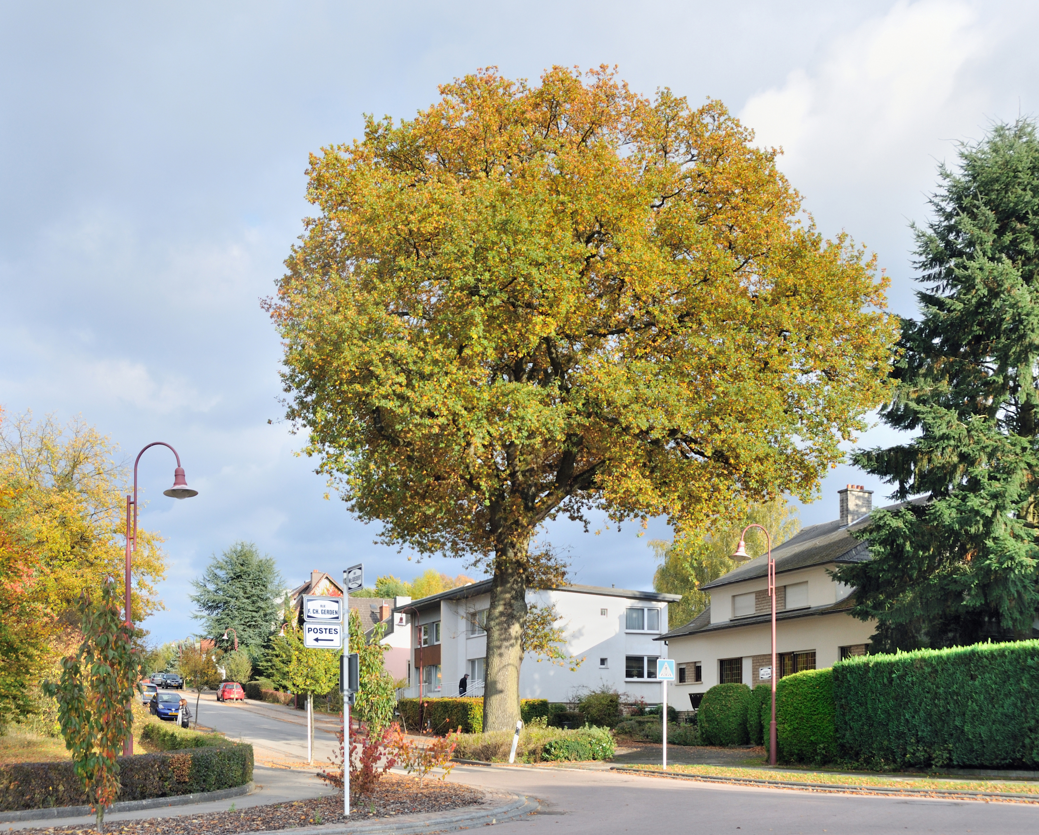 Luxembourg, Bridel: Sessile Oak (Quercus petraea) listed with the Remarkable trees of Luxembourg.